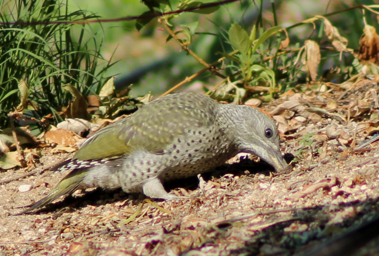 A juvenile female Iberian Woodpecker (Picus sharpei) eating ants in Madrid (Spain).